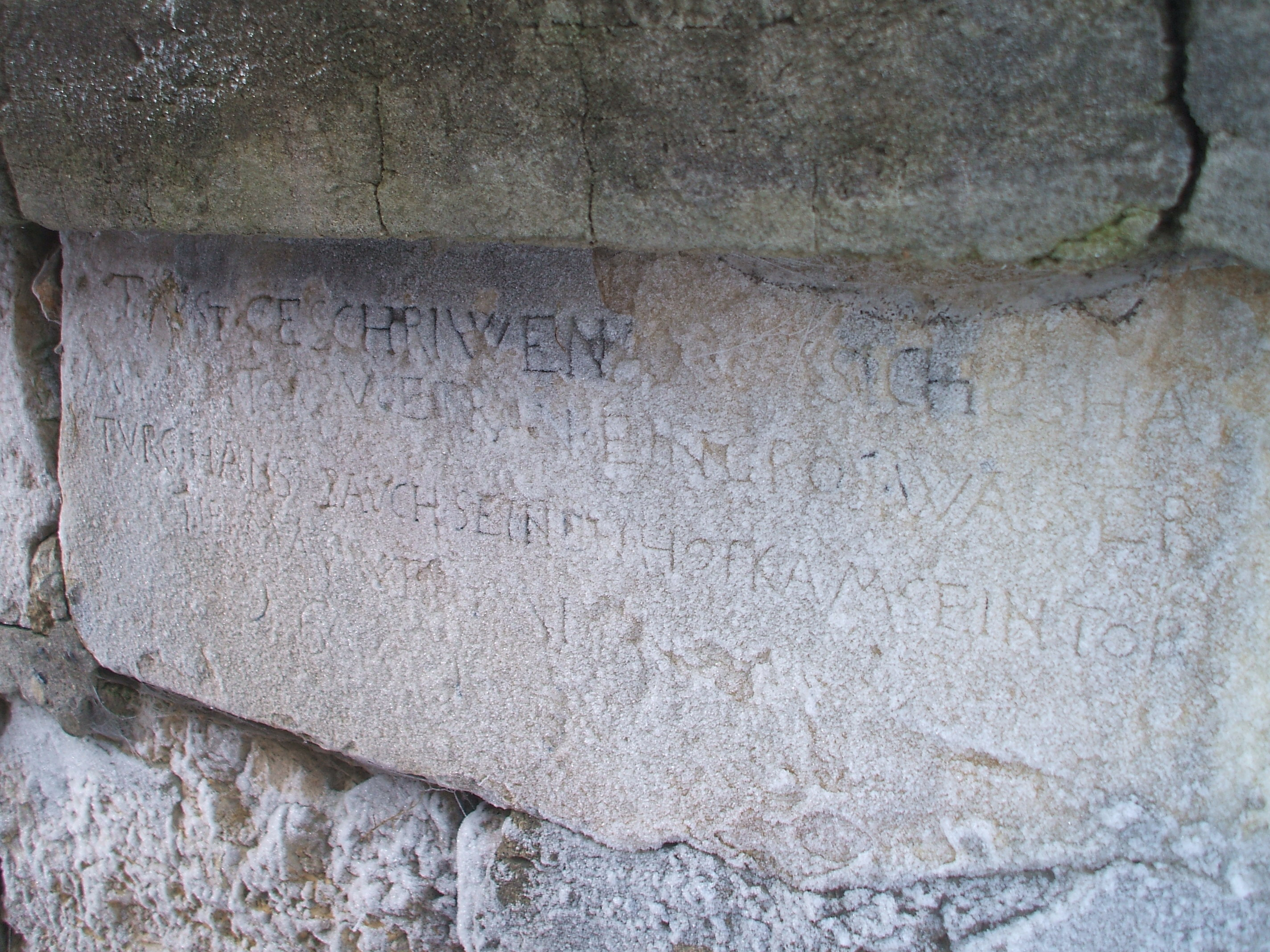 Geunitz, municipality of Reinstädt, Saale-Holzland district, Thuringia, Germany: Commemorative inscription to the Thuringian Flood of the year 1613